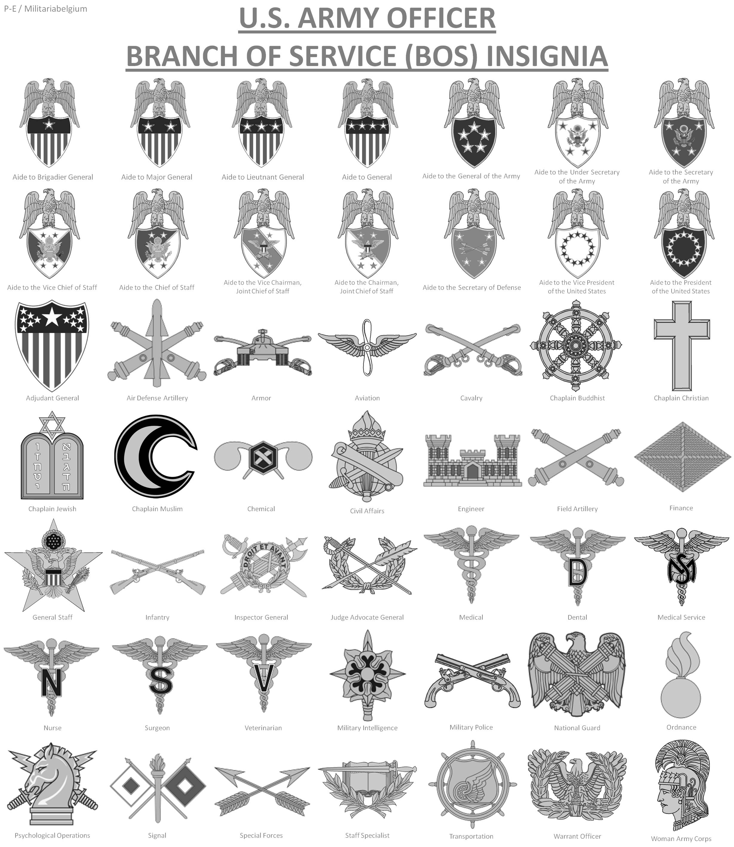 Schema that shows all the branch of service (BOS) insignia worn by the US Army officers on their combat uniform.